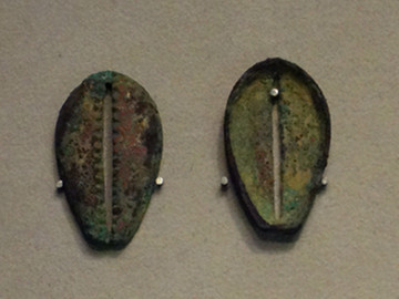 Tow bronze wampum unearthed at Baode, Shanxi, these coins of China were minted in the Shang period. The Photo was taken at China Numismatic Museum.